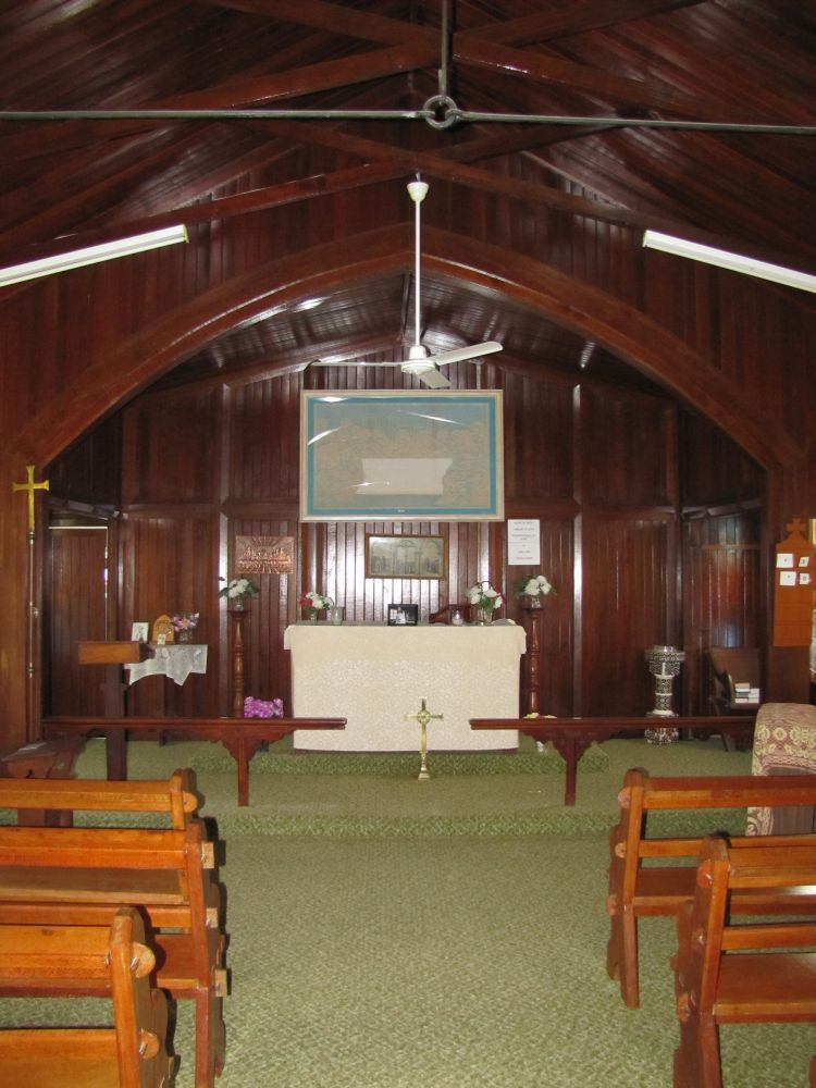 St John the Baptist Anglican Church Complex (2014) - interior